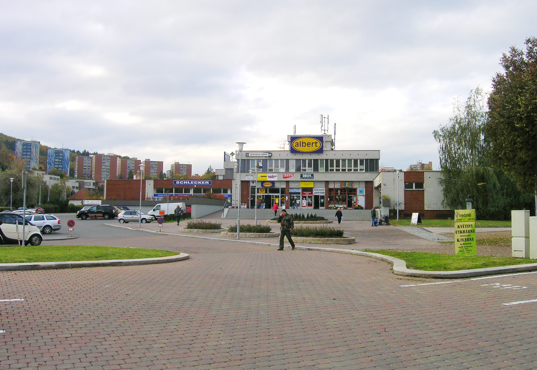 28. dubna square in Brno, Czech Republic